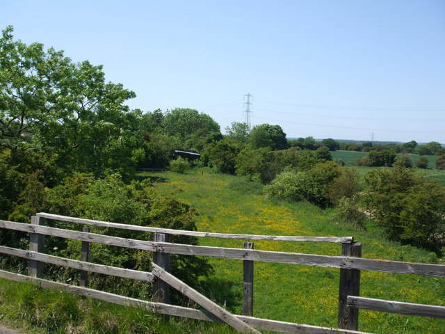 Disused Railway line